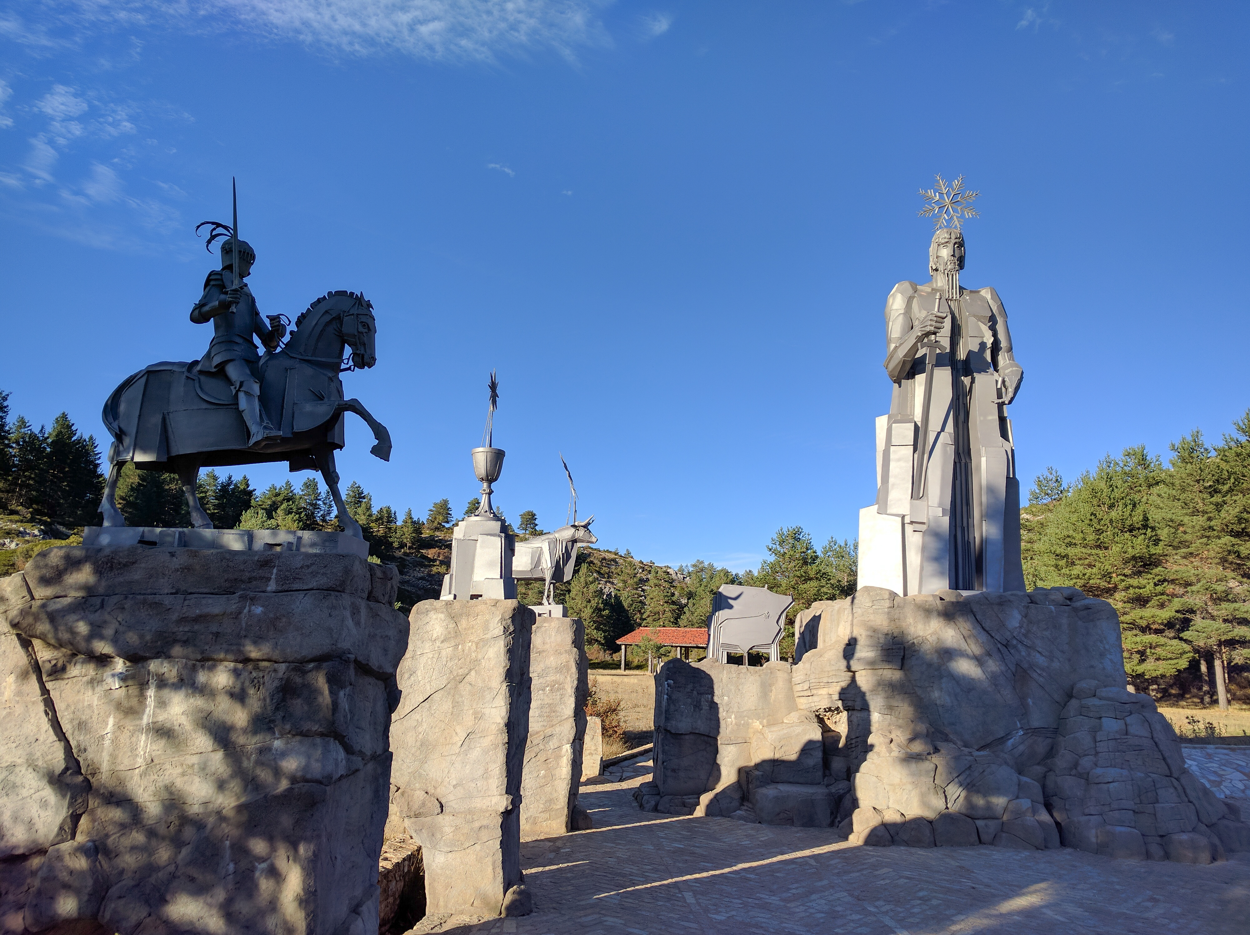 Tagus River source. Frias de Albarracin, Teruel, Spain. Sculptures created by José Gonzalvo Vives. The highest one symbolizes The Father Tagus. The other sculptures represent the three provinces that happen to meet in the source: Teruel (the bull and the star), Cuenca (the holy chalice and the star) and Guadalajara (the knight).